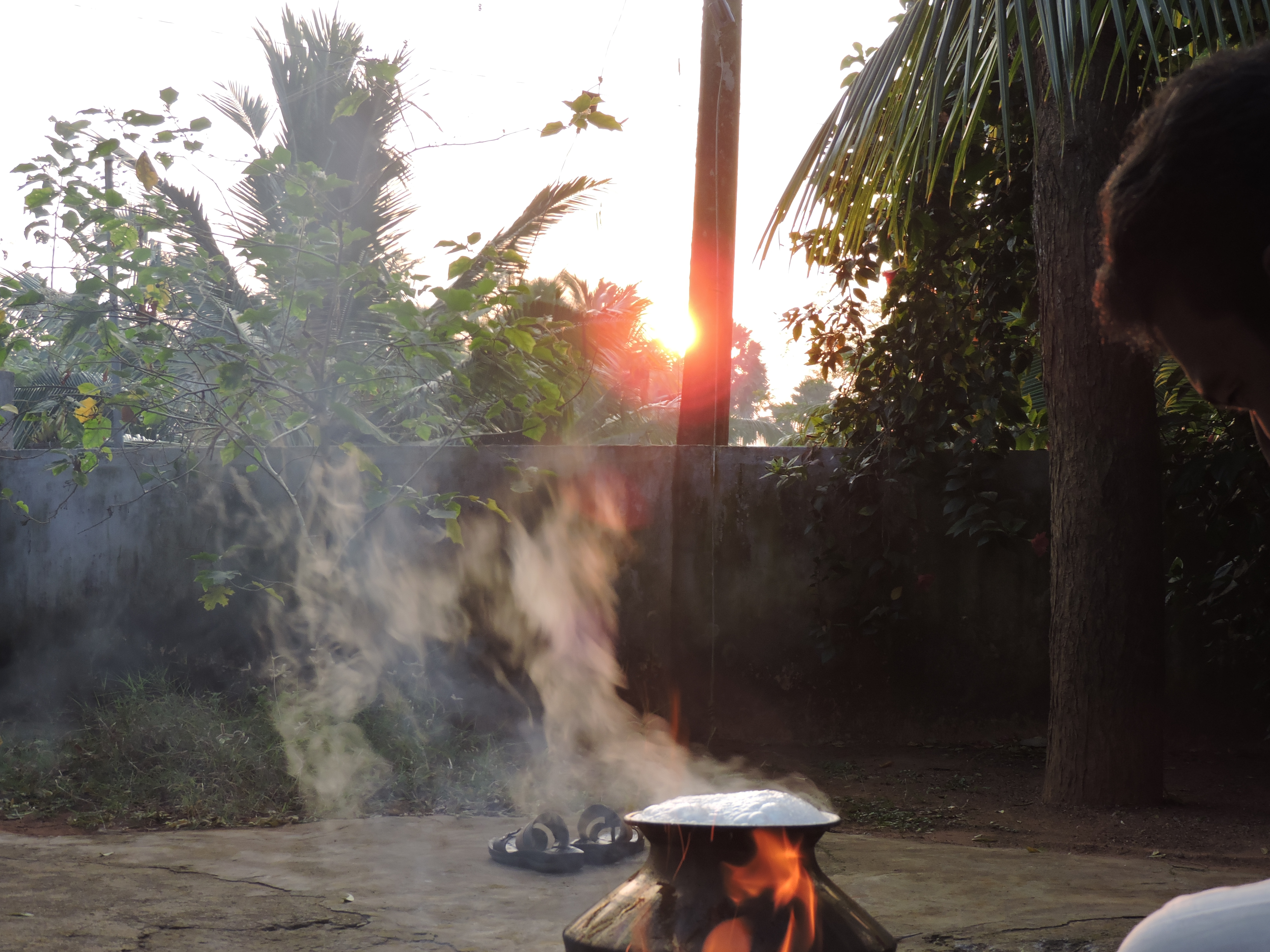 Pongalo Pongal